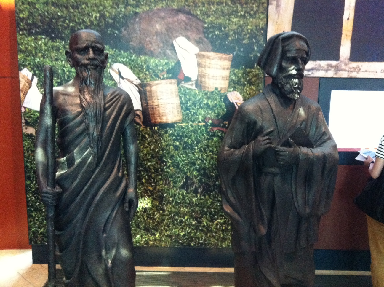 Statues of Faxian and Marco Polo in the Maritime Experiential Museum & Aquarium, Resorts World Sentosa, Singapore.